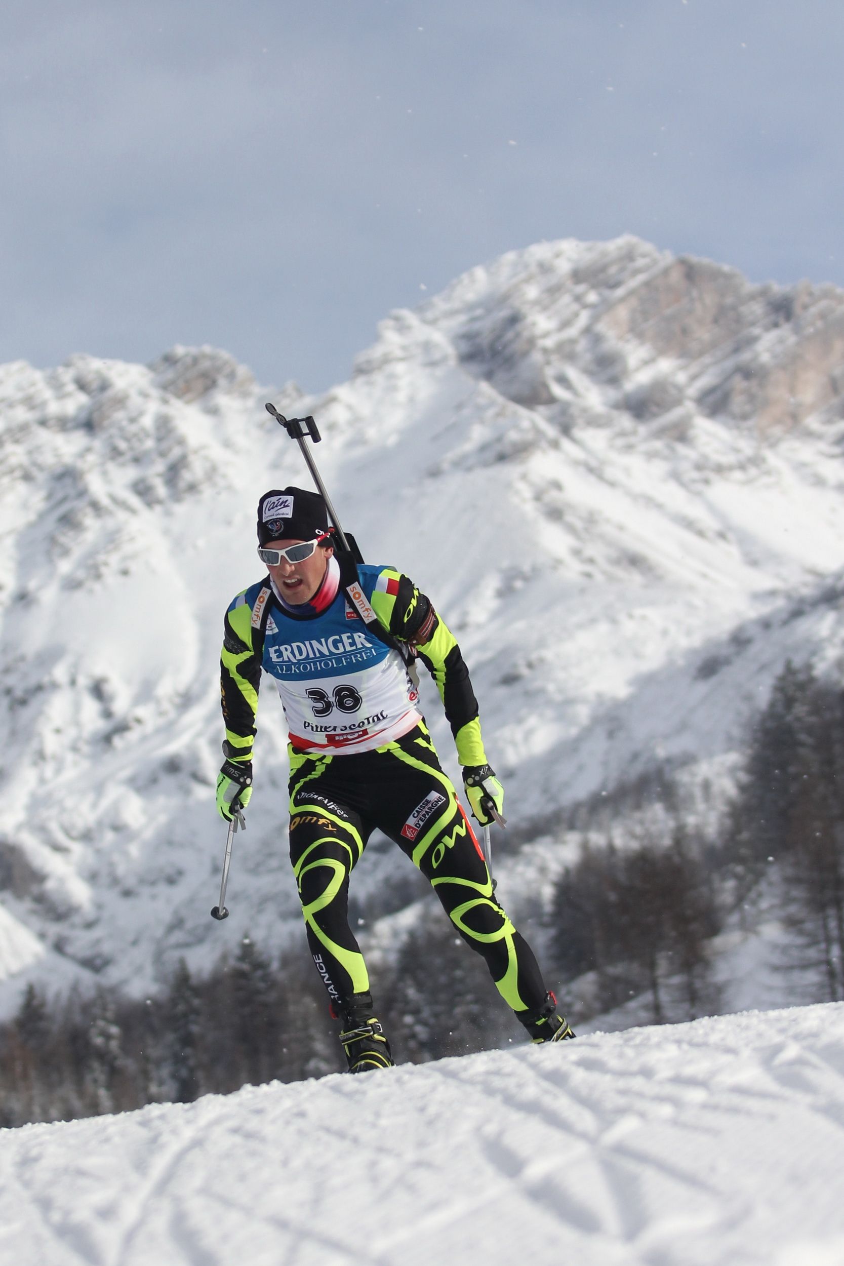 Simon Desthieux at Biathlon Weltcup 2012 in Hochfilzen